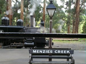 The platform of the Menzies Creek railway station (Melbourne, Australia), with a steam engine (Puffing Billy), a lamppost, and a bench.